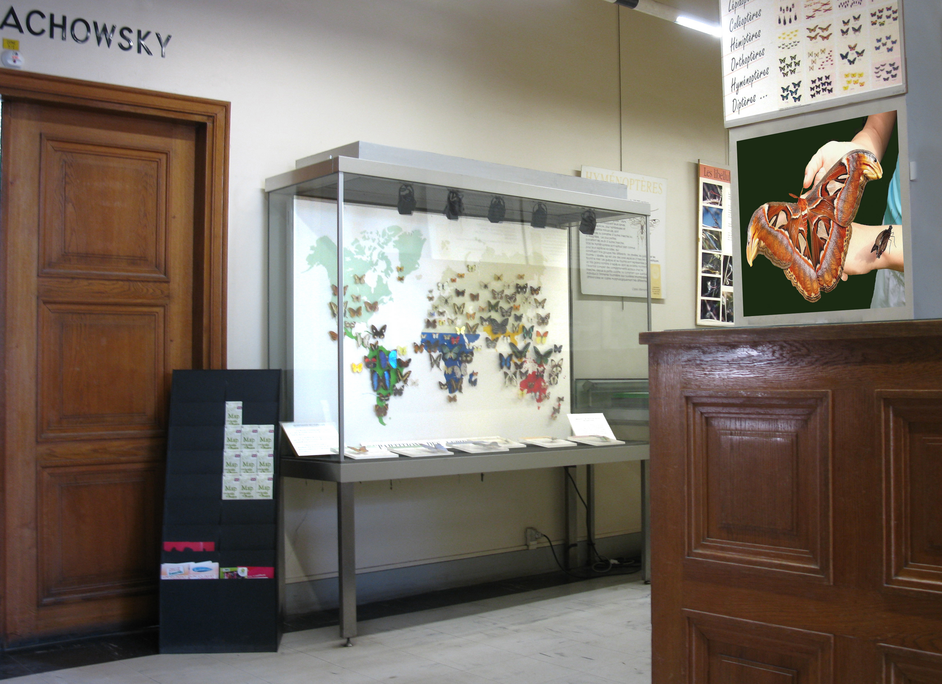 Entomological gallery, Muséum National d'Histoire Naturelle, Paris